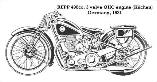 Rupp 500 cc motorcycle.